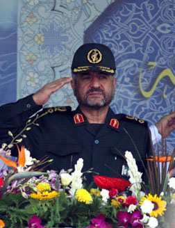 Major general Mohammad Ali Jafari, Commander-in-Chief of the IRGC, during Sacred Defence Week parade.